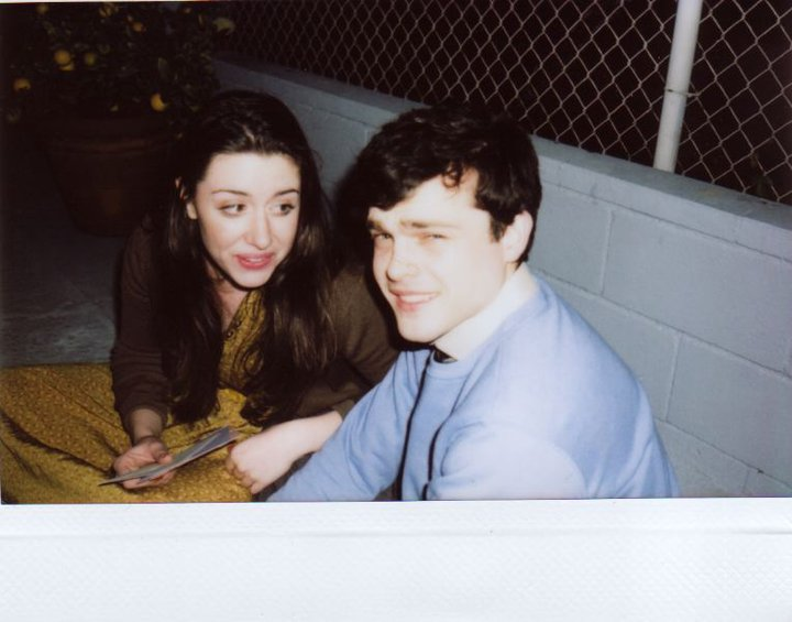 Zoë Worth & Alden Ehrenreich on the set of "Running Wild"